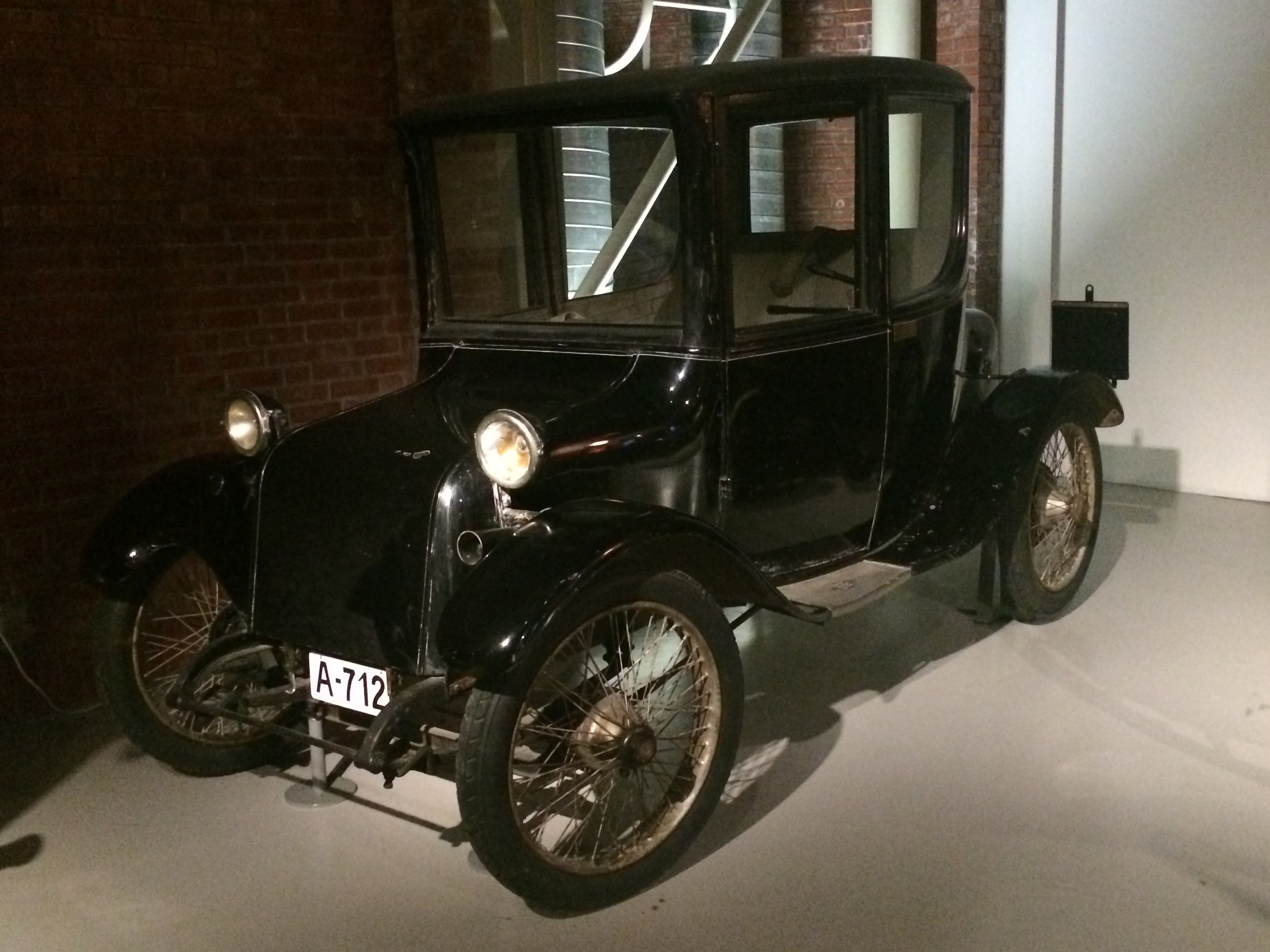 Image of two electric cars. Left: Milburn electric car manufactures in the United States, 1919. This model was used by the police and the Secret Service. Right: Lohner Werke (Jacob Lohner) electric car from 1905, manufactured in Wien, Austria. Ferdinand Porsche worked at the factory and invented the visible electric engines at the inside of each forewheel. Norwegian Technical Museum, Oslo.